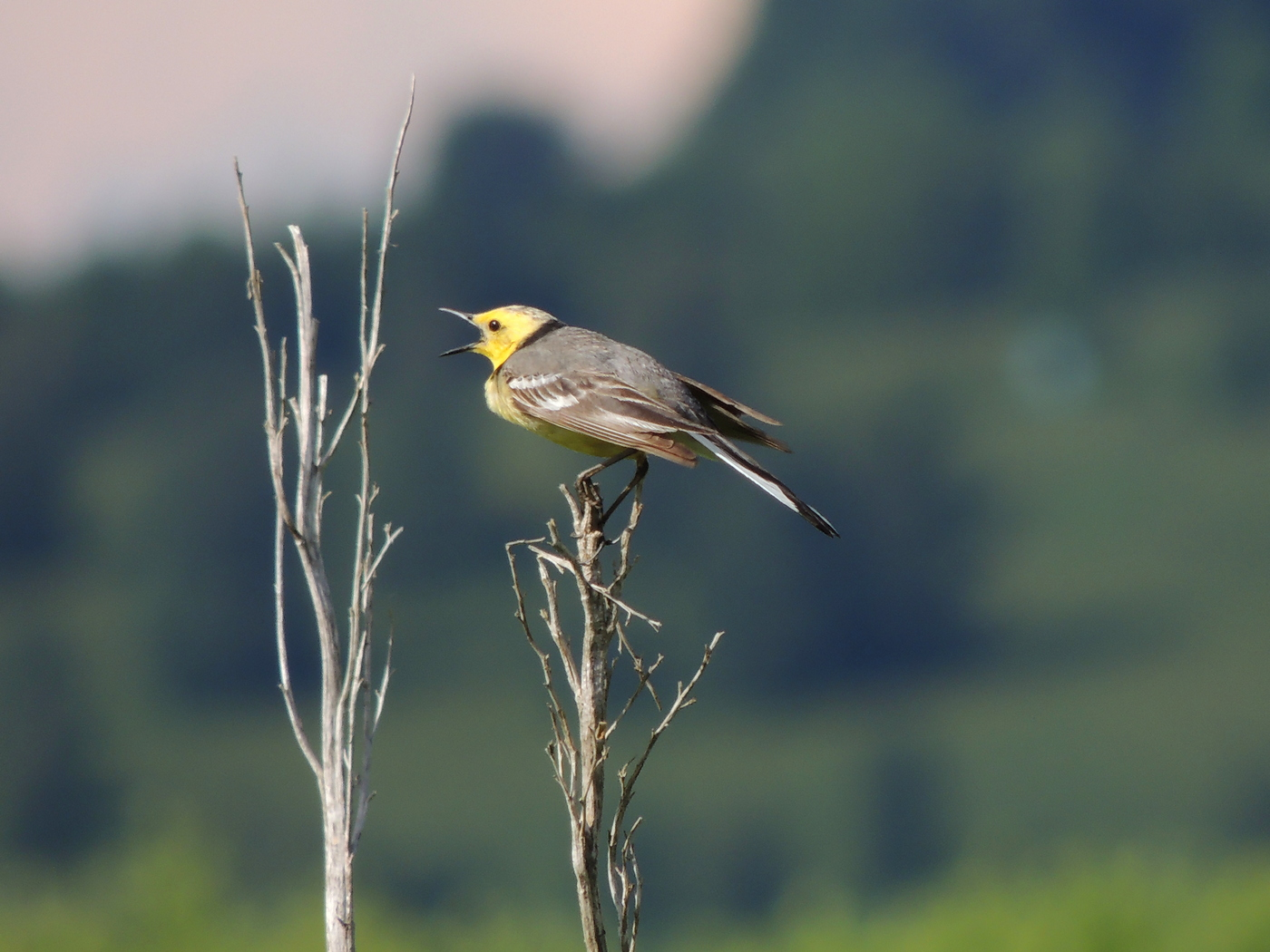 Citrine wagtail